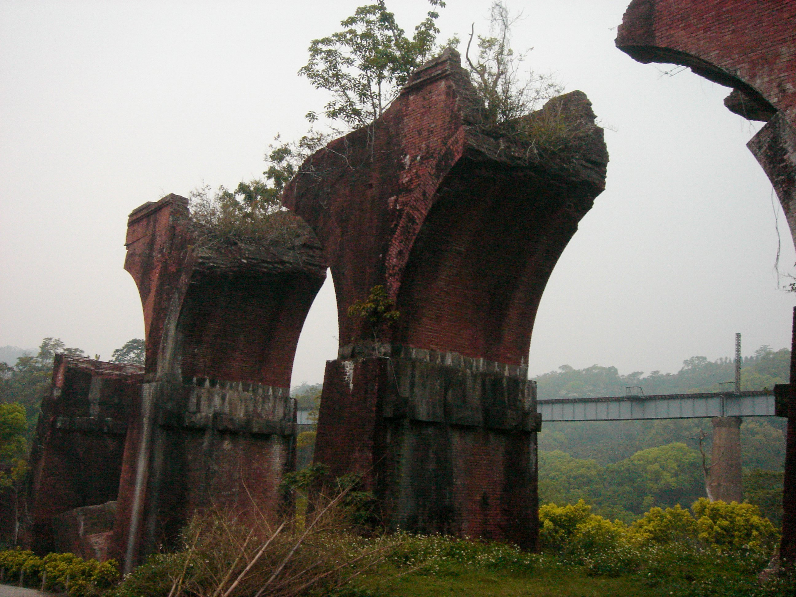 Longteng bridge